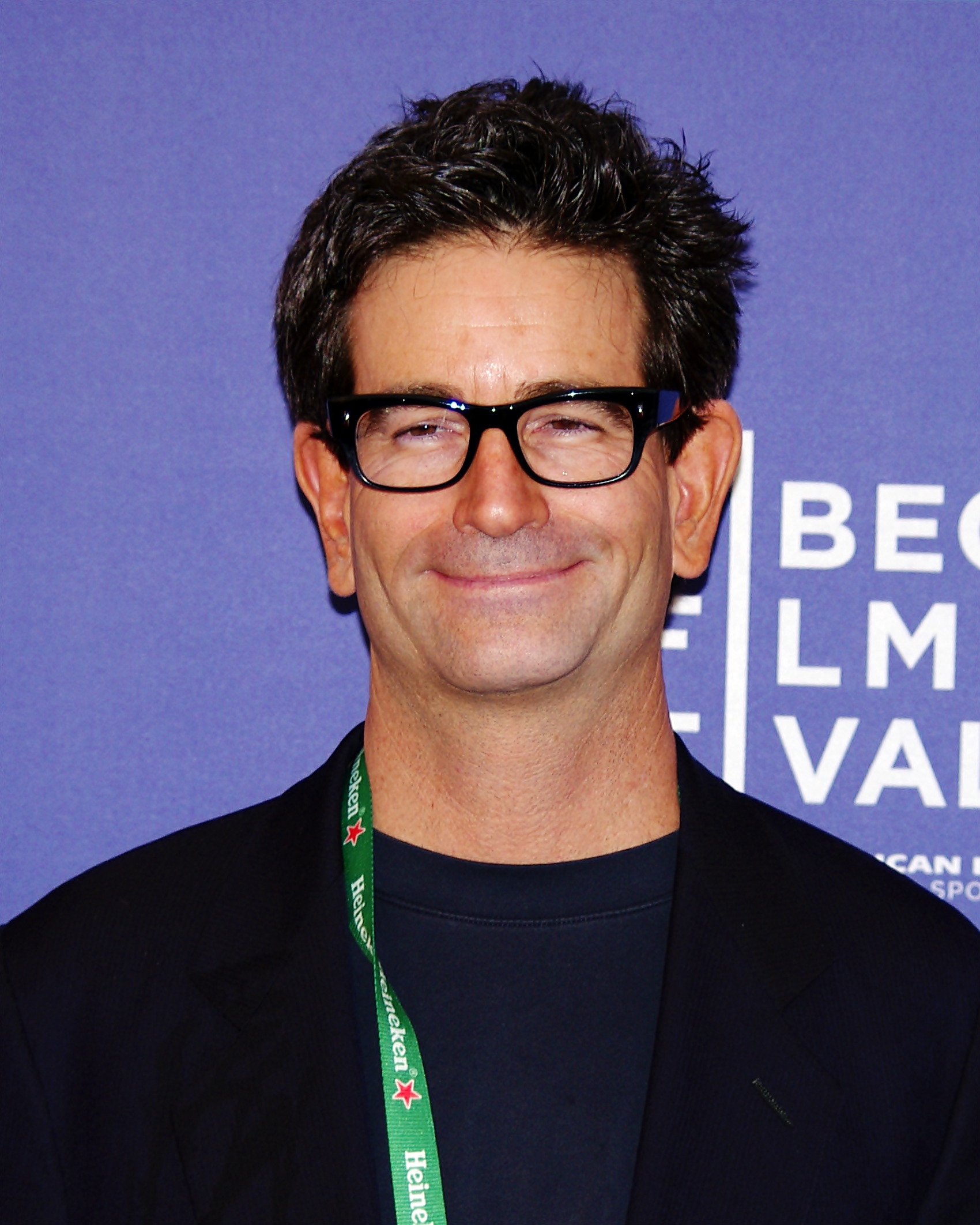 Charles Matthau at the 2012 Tribeca Film Festival premiere of Freaky Deaky.